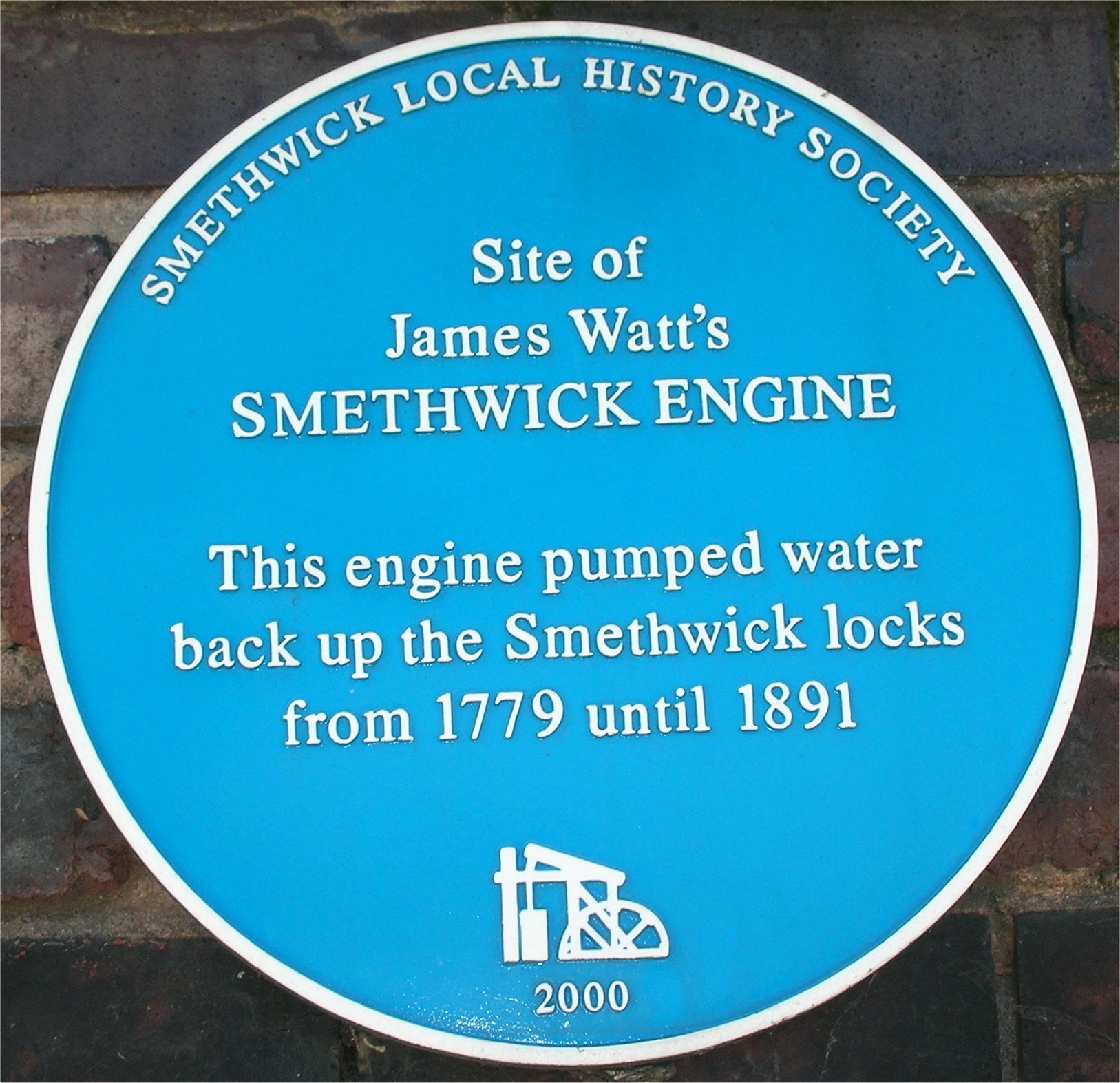 Blue plaque on the wall of the new building covering the excavated site of the Smethwick Engine at the corner of Bridge Street North and Rolfe Street, Smethwick, West Midlands, England. Photographed by me 1 May 2007. Oosoom